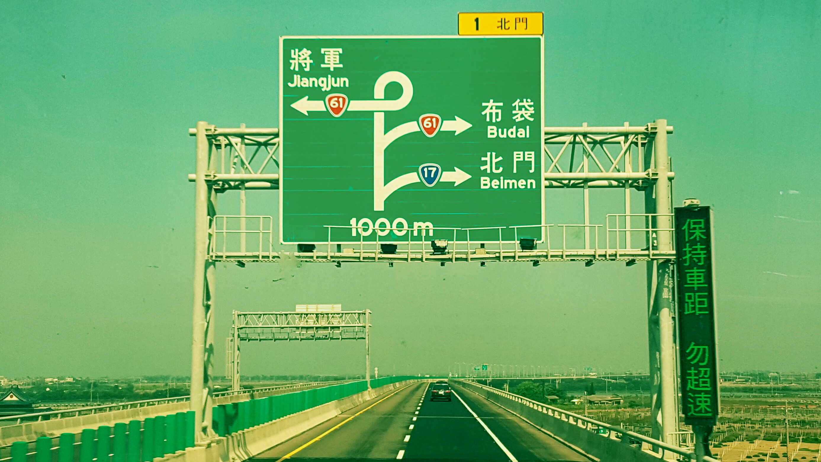 Westbound lane on Beimen IC on the Taiwan Provincial Highway 84.